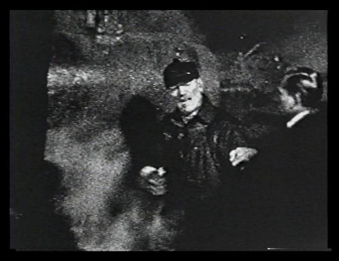 Still from 9.5mm motion picture film taken by Wencel Brezinski in Northeastern Wisconsin in March 1929, depicting Lon Chaney in the film "Thunder."